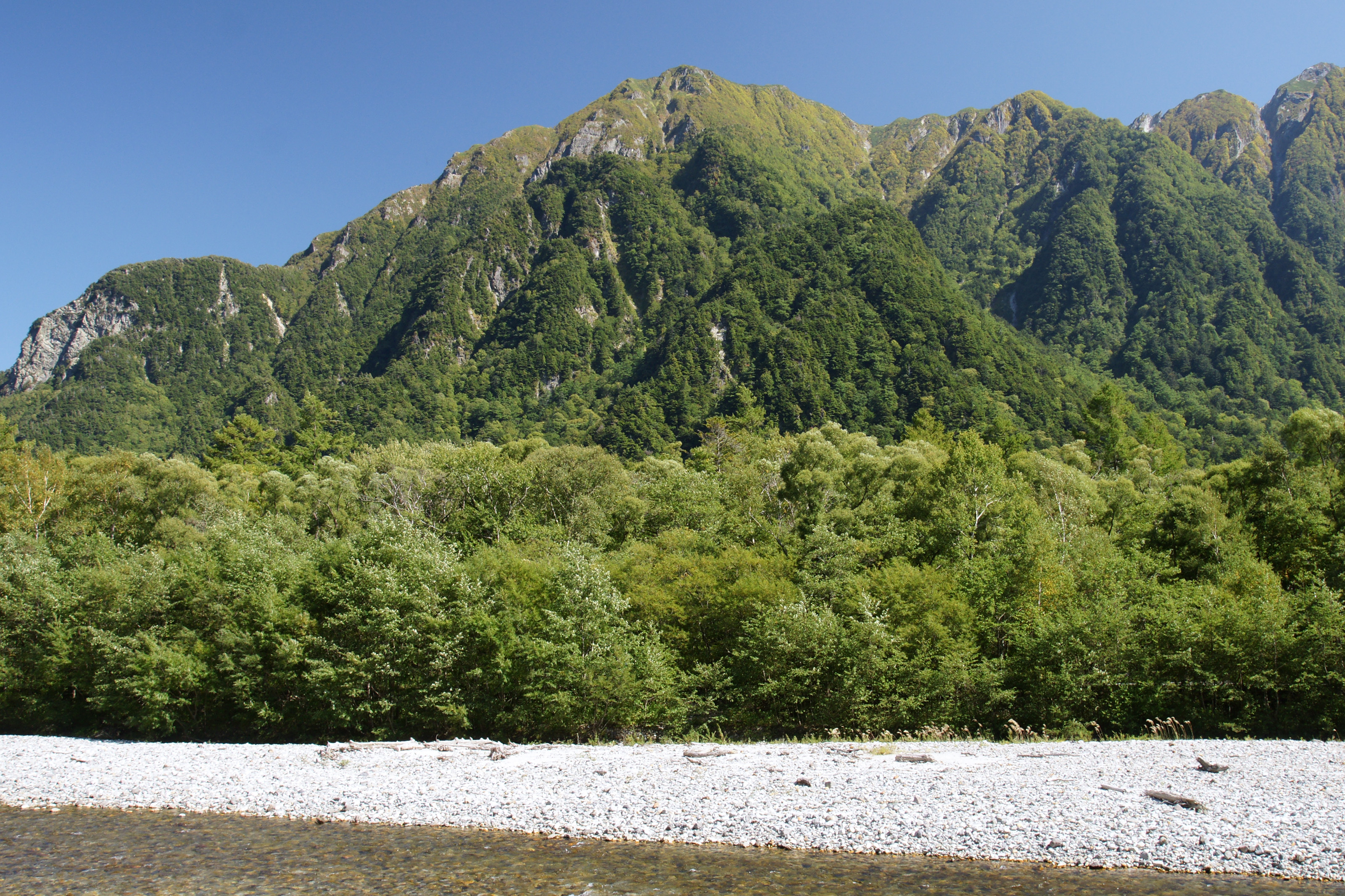 Mt. Roppyakusan at Kamikochi in Matsumoto, Nagano prefecture, Japan